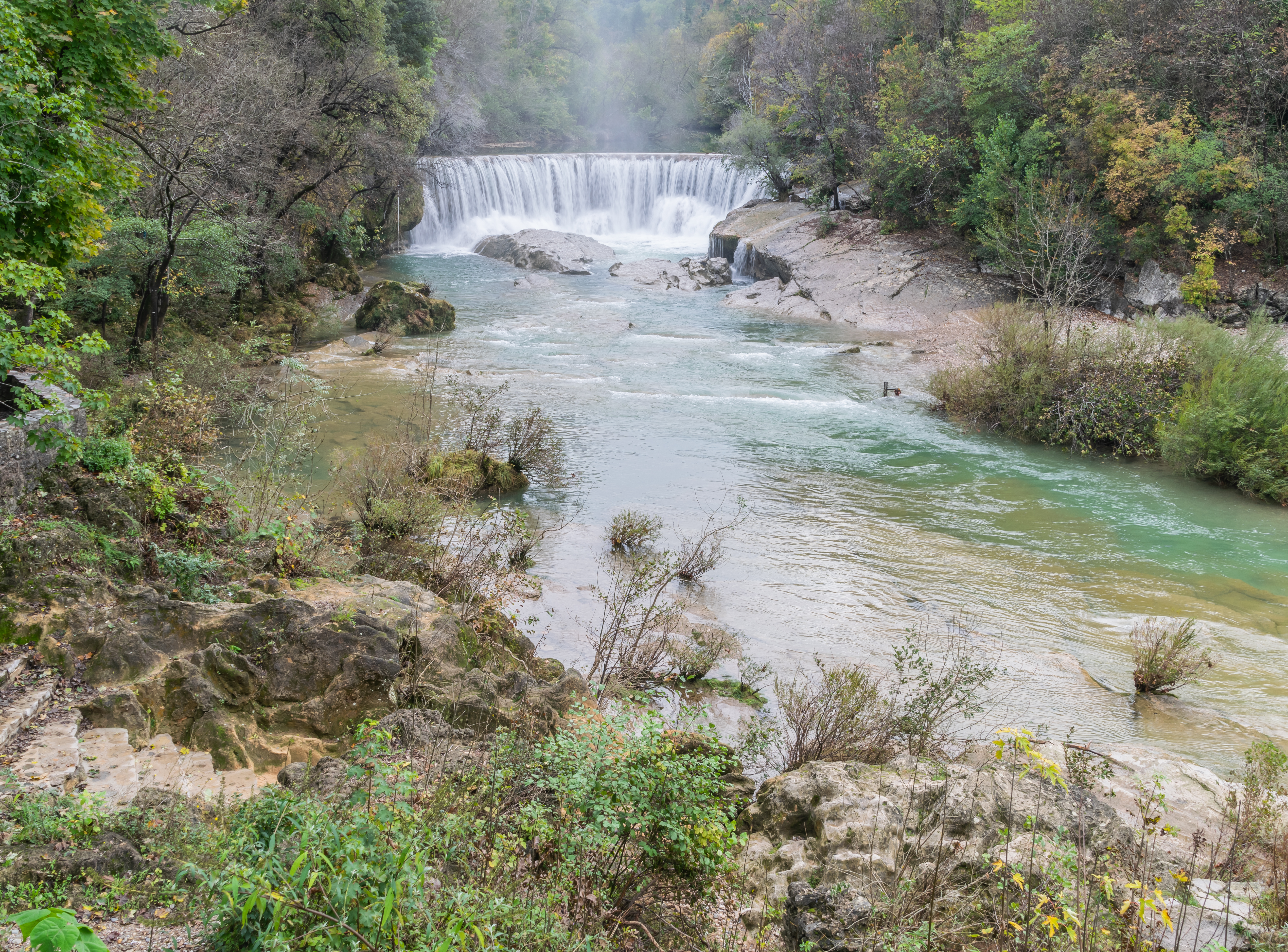 Cascade de la Vis in commune of Saint-Laurent-le-Minier, Gard, France